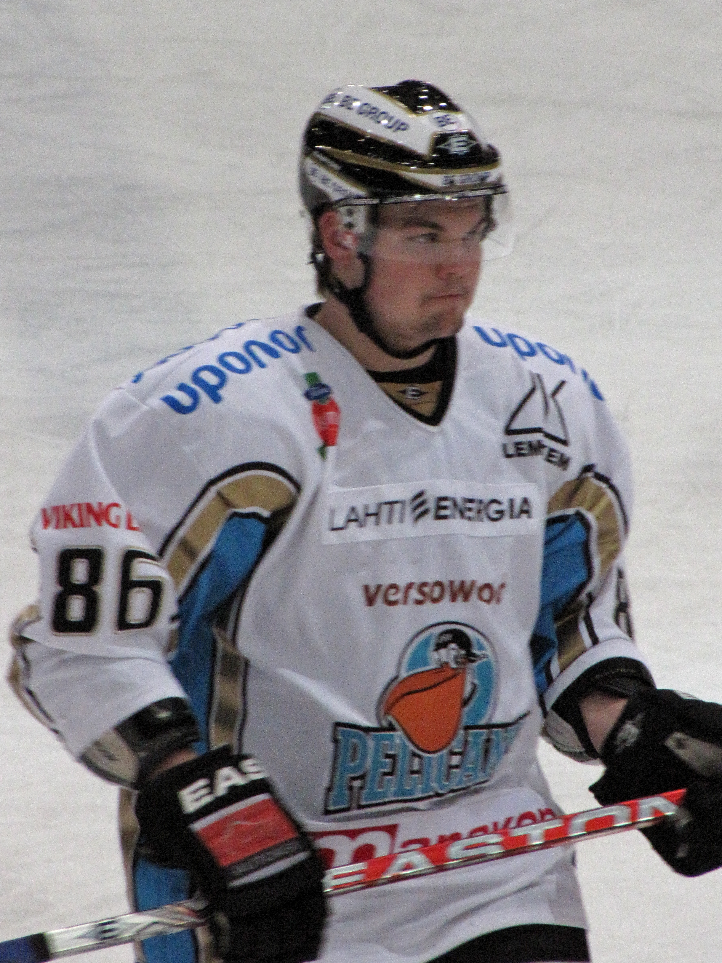 Finnish ice hockey forward Sami Blomqvist playing for Lahti Pelicans in an SM-liiga game against Tampere Ilves in Tampere, Finland, in February, 2011.